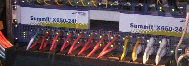 10GBase-T Ethernet Switch Extreme Networks Summit X650-24t